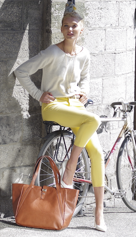 Backstage Lancaster in Montreal